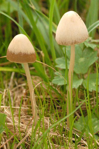 Psathyrella marcescibilis from Commanster, Belgium. If you think this is a different taxon, please contact James Lindsey.